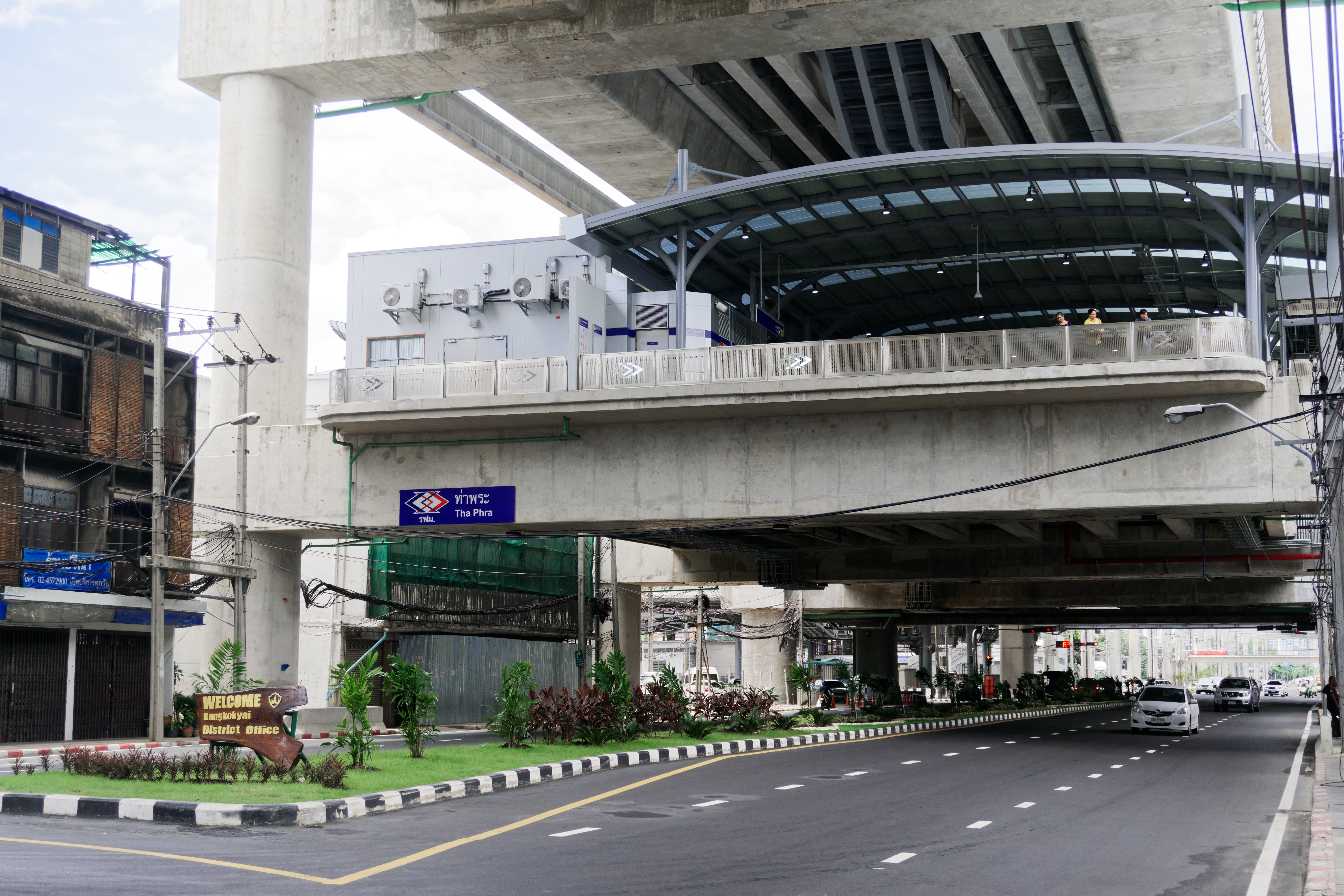 MRT Ta Phra station (View from Charansanitwong Rd.)